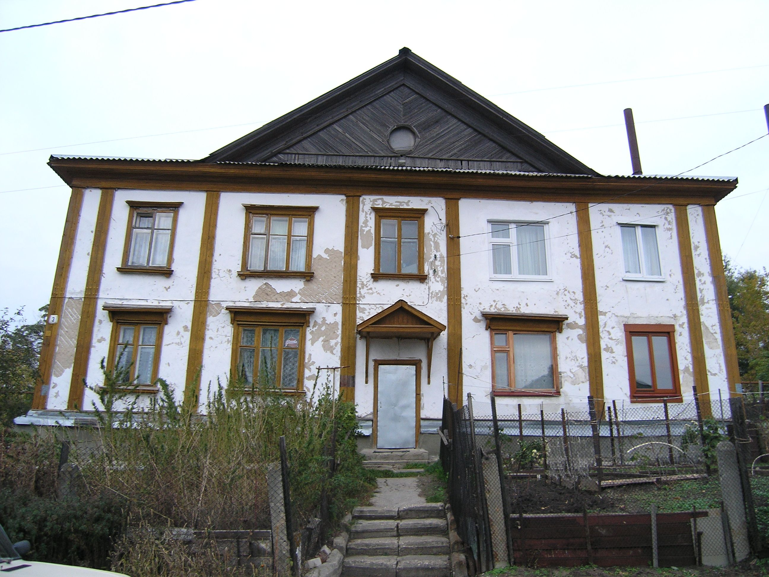 Naberezhnaya street, Togliatti, Russia